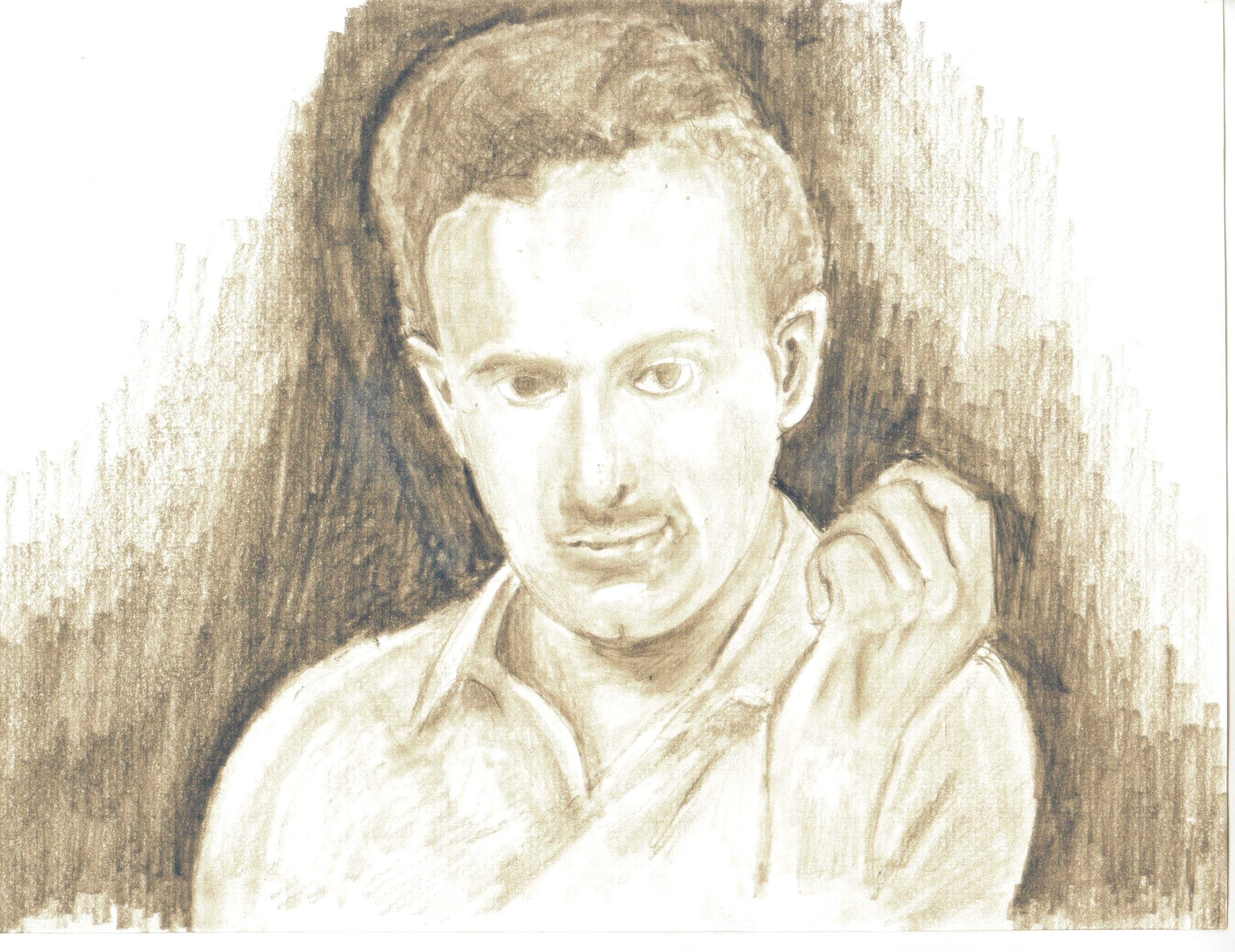 this image portrays Wickrama Bogoda who characterizes Sugath in Golu Hadawatha (Silence of the heart) movie. This is a painted image modified digitally. Portrait